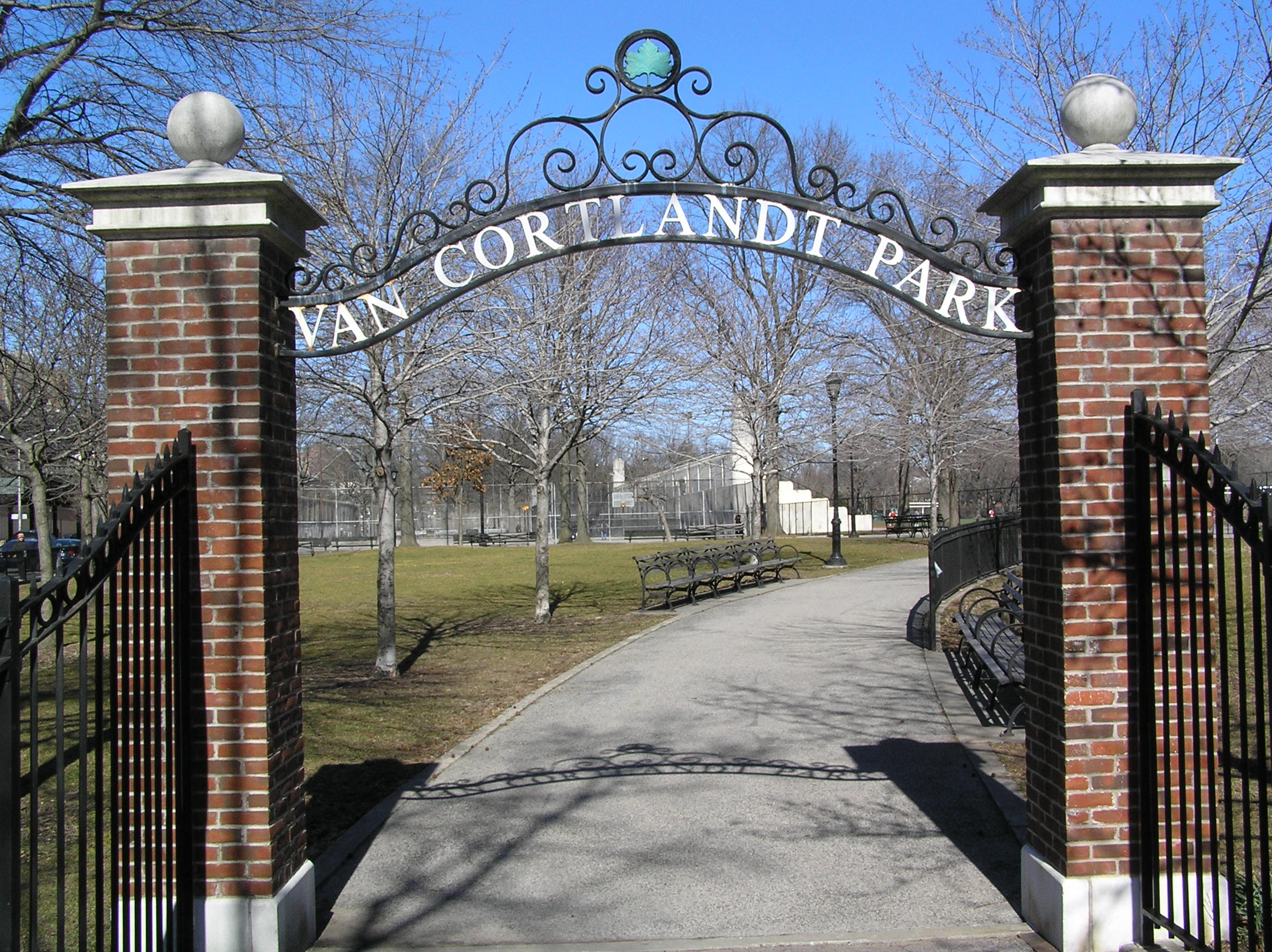 The entrance to Van Cortlandt Park in Kingsbridge/Riverdale. The park is located at the last stop of the Number 1 subway line.